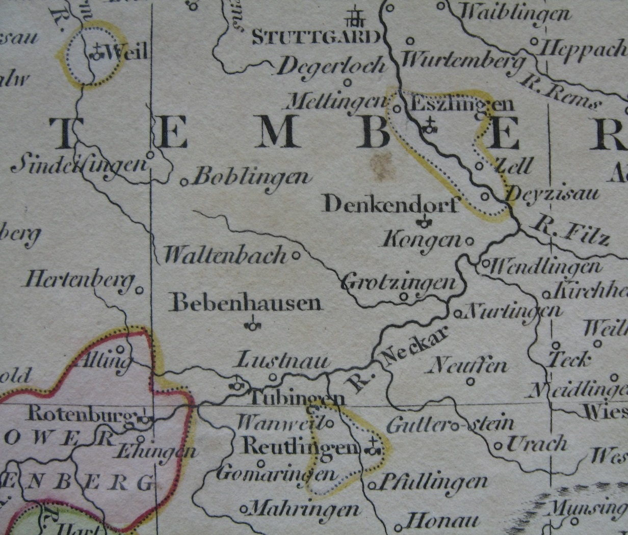 The free imperial cities of Reutlingen, Esslingen and Weil (Weil der Stadt) maintained their independence for centuries despited being fully enclaved within the Duchy of Wurttemberg. Lower Honenberg, lower left, was one of the many enclaves of Further Austria (Vorderösterreich) in Swabia. Cropped from a map of the Swabian Circle published by R. Wilkinson in 1802.